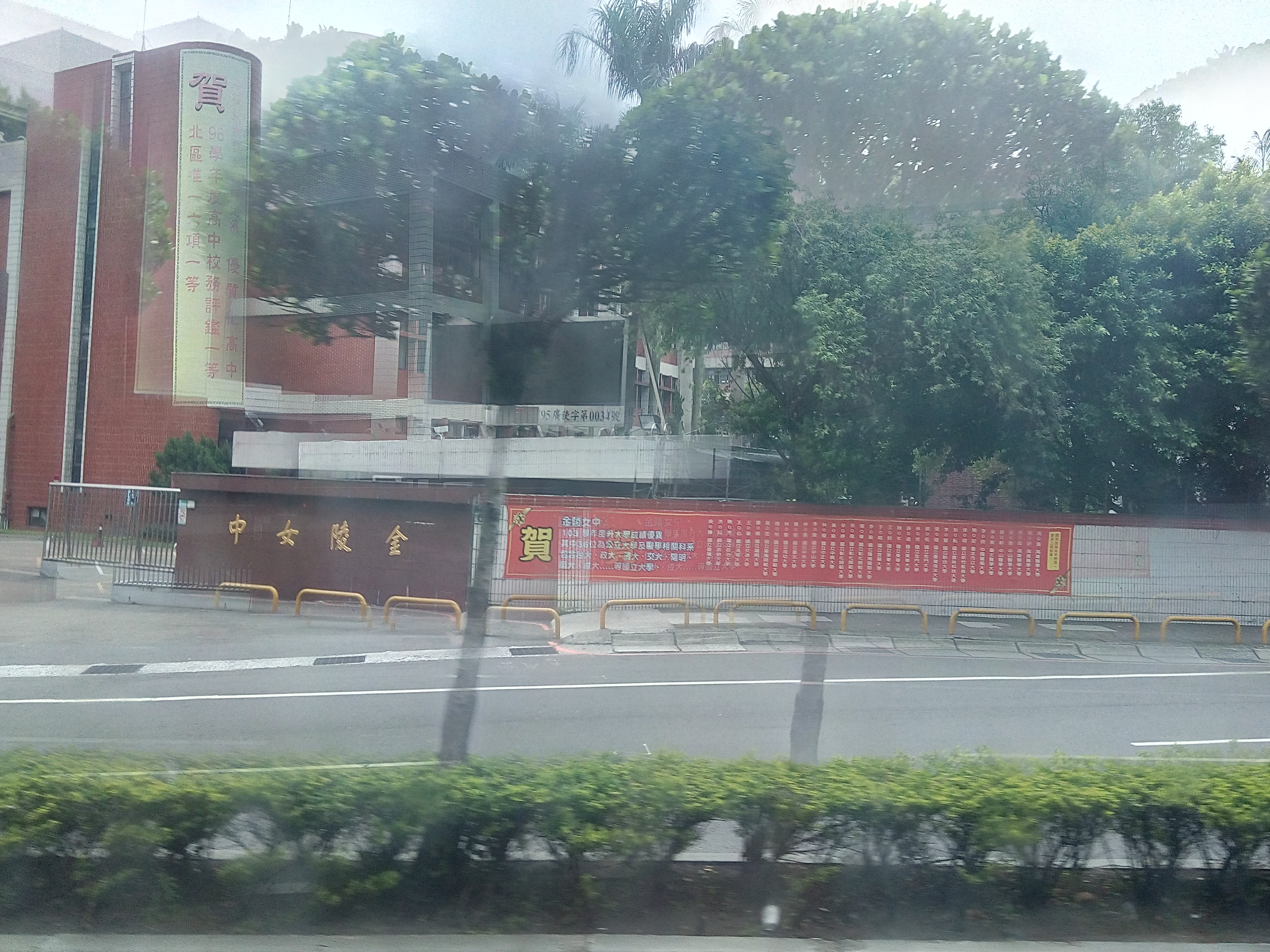 Jinling Girl's high school.